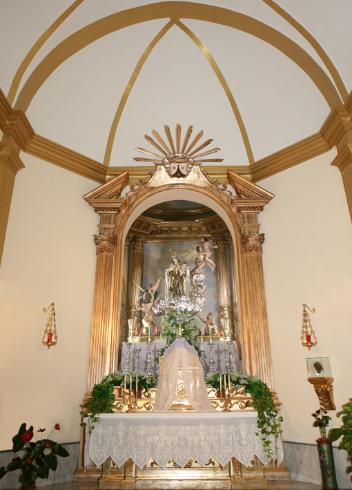 Our Lady of Mount Carmel Chapel, in Beniaján (Spain)